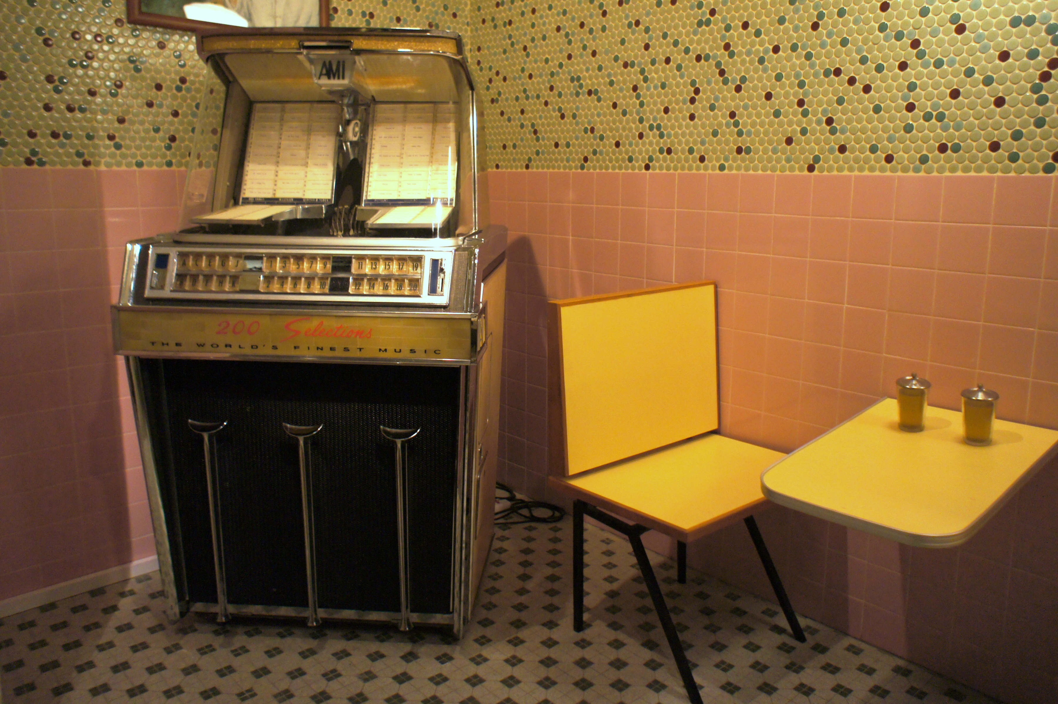 An exhibit showing a typical Chinese herbal tea shop with a jukebox (AMI JPK-200) in the 1960s. (Collections of the Hong Kong Museum of History)